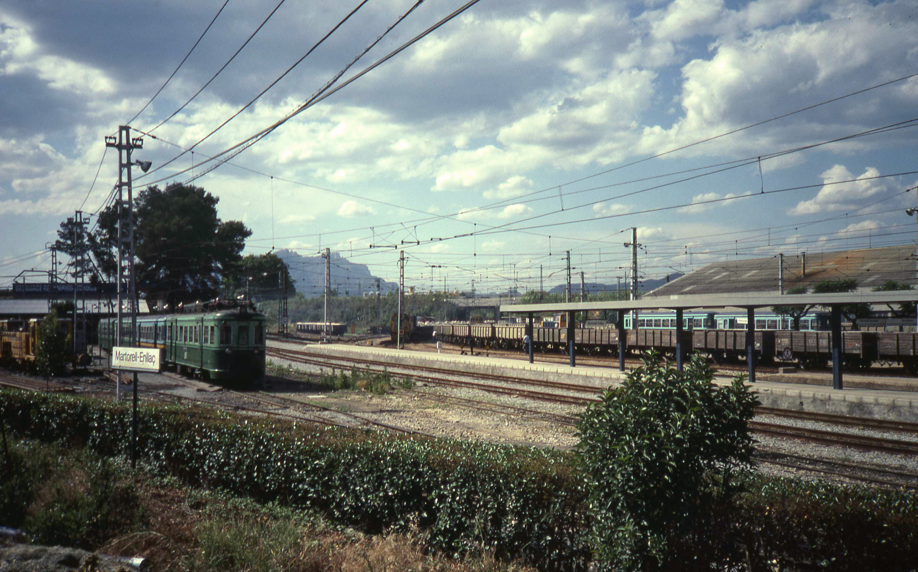 Martorell-Enllaç station in 1987. It is now transformed and fully modernised.